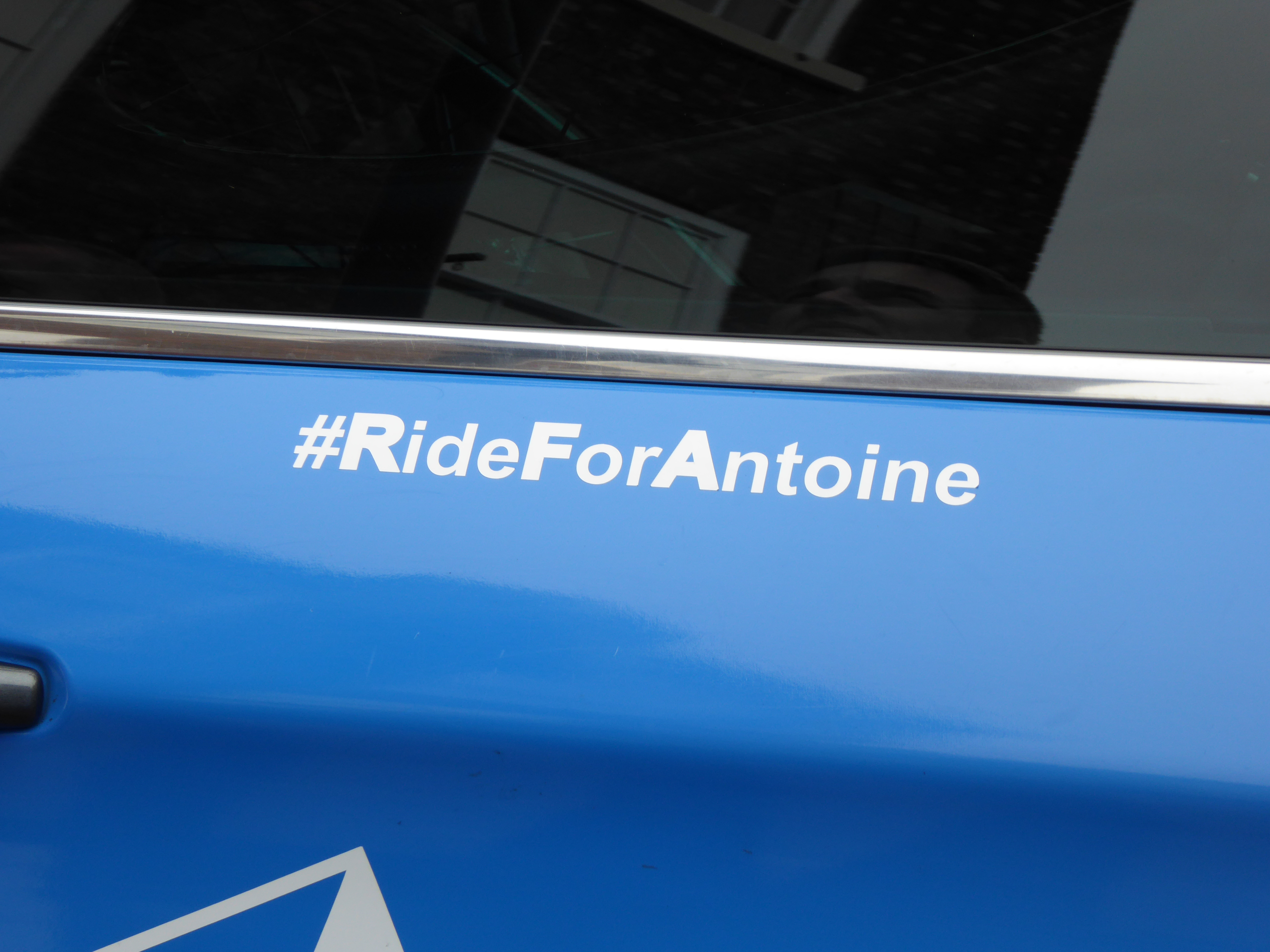 #RideForAntoine.